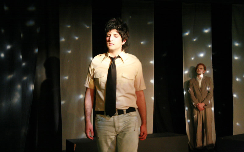 Photo of 'Dante' & 'Virgil' in the theatrical ensemble 'Lunds nya Studentteater' during the autumn 2006 play of 'Dante's Divina Commedia'.